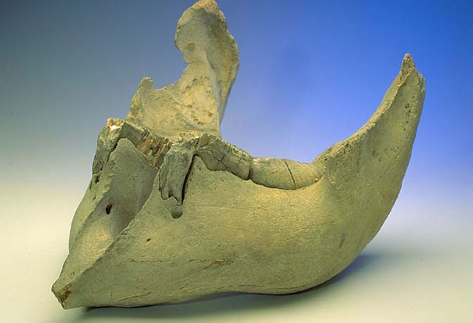 A Mammoth Mandible in the permanent collection of The Children’s Museum of Indianapolis